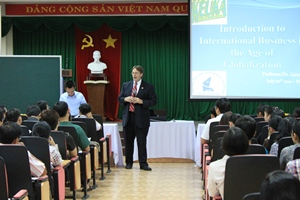 một giờ làm SV quốc tế